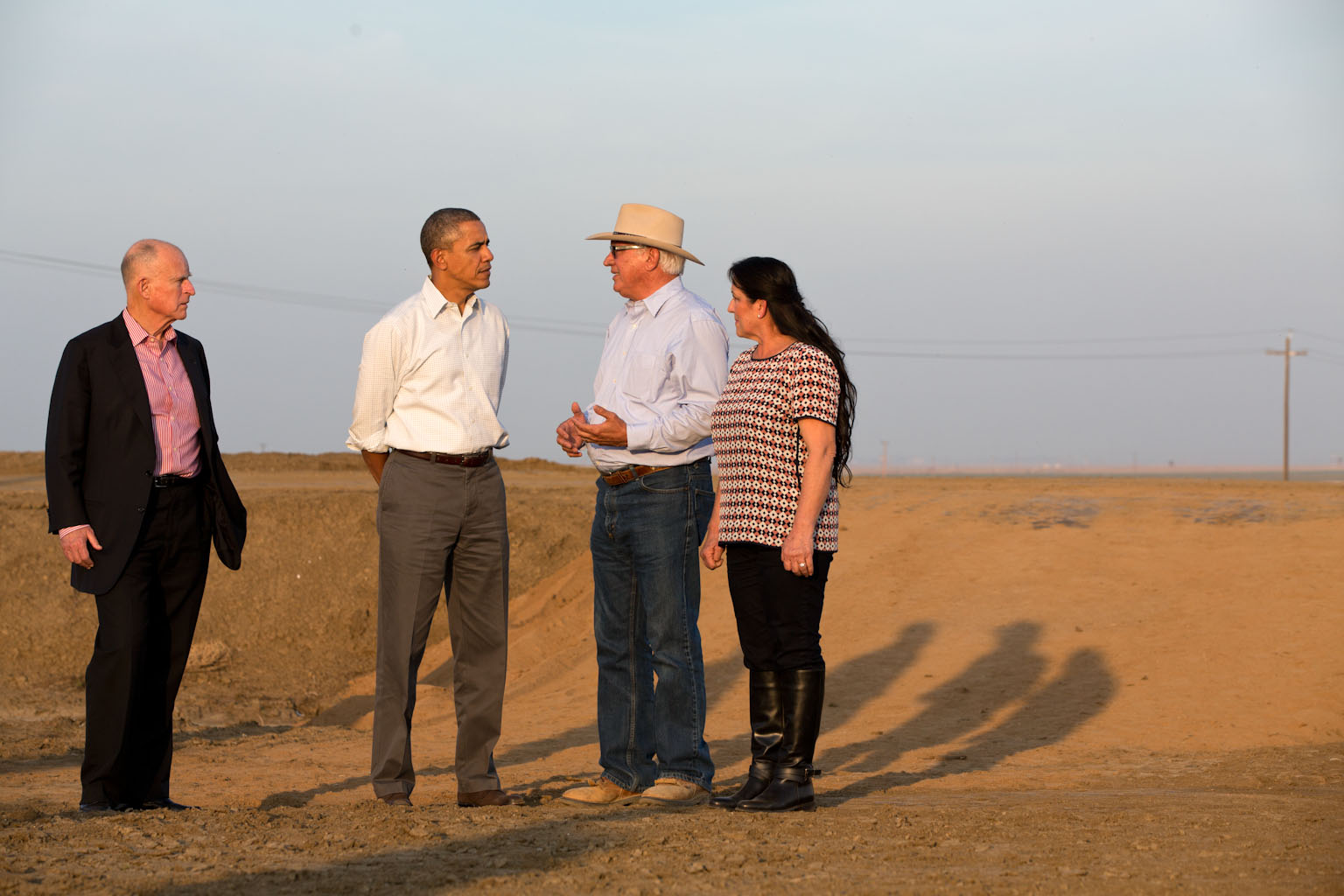 President Barack Obama tours a field with farmer Joe Del Bosque, his wife Maria, and California Gov. Jerry Brown in Los Banos, Calif., Feb. 14, 2014. (Official White House Photo by Pete Souza)